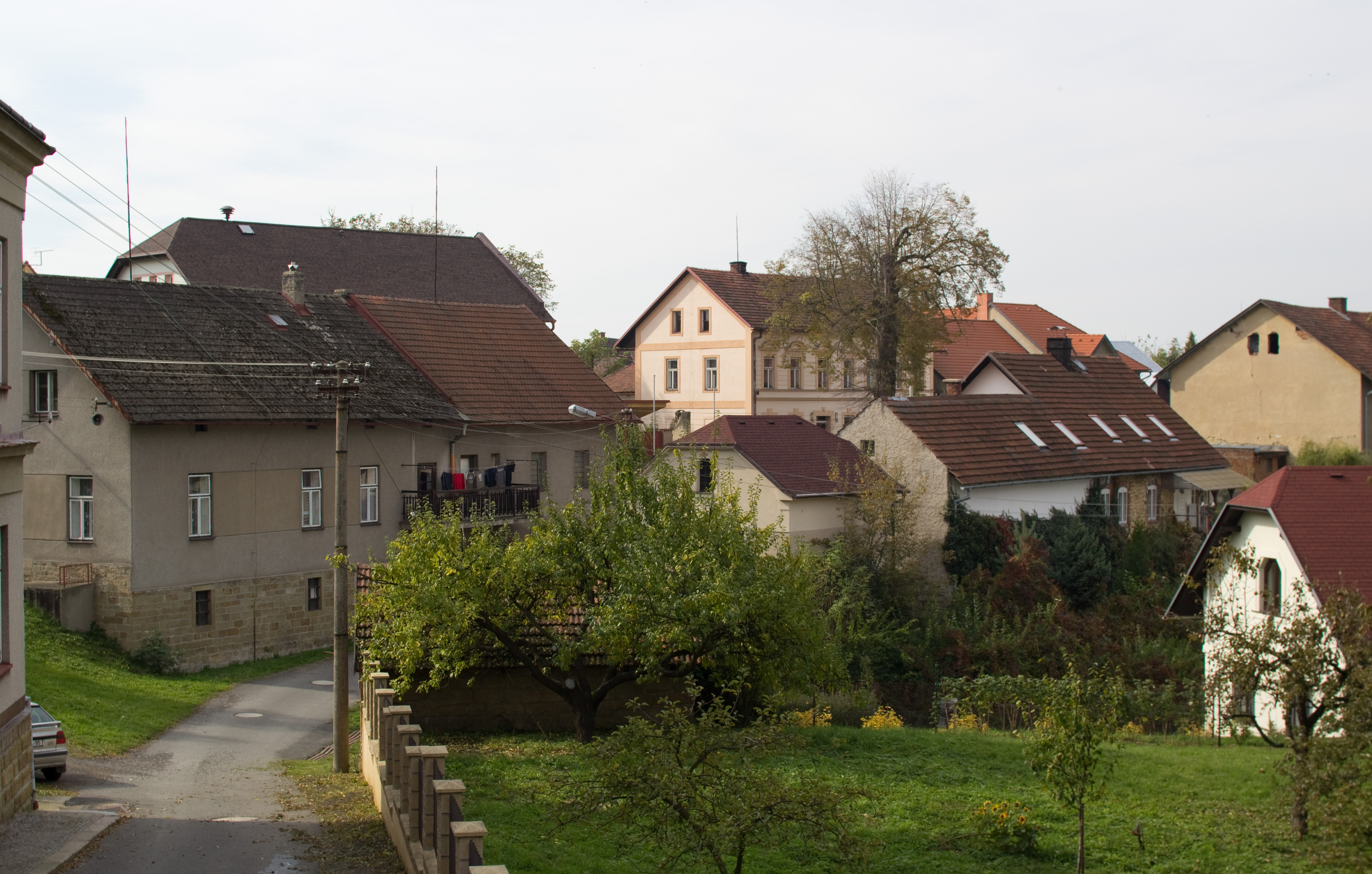 Sudslava, Rychnov nad Kněžnou District, Hradec Králové Region